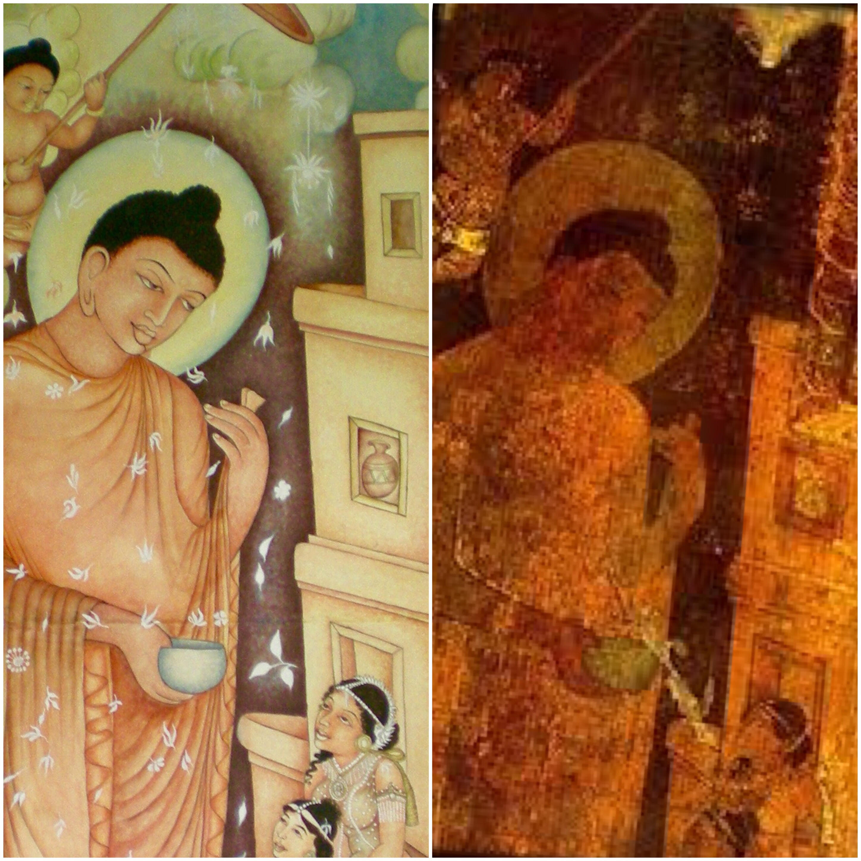 Reconstructed to Originality as it was 2000 year ago in caves. Visible fine dtails of paintings.